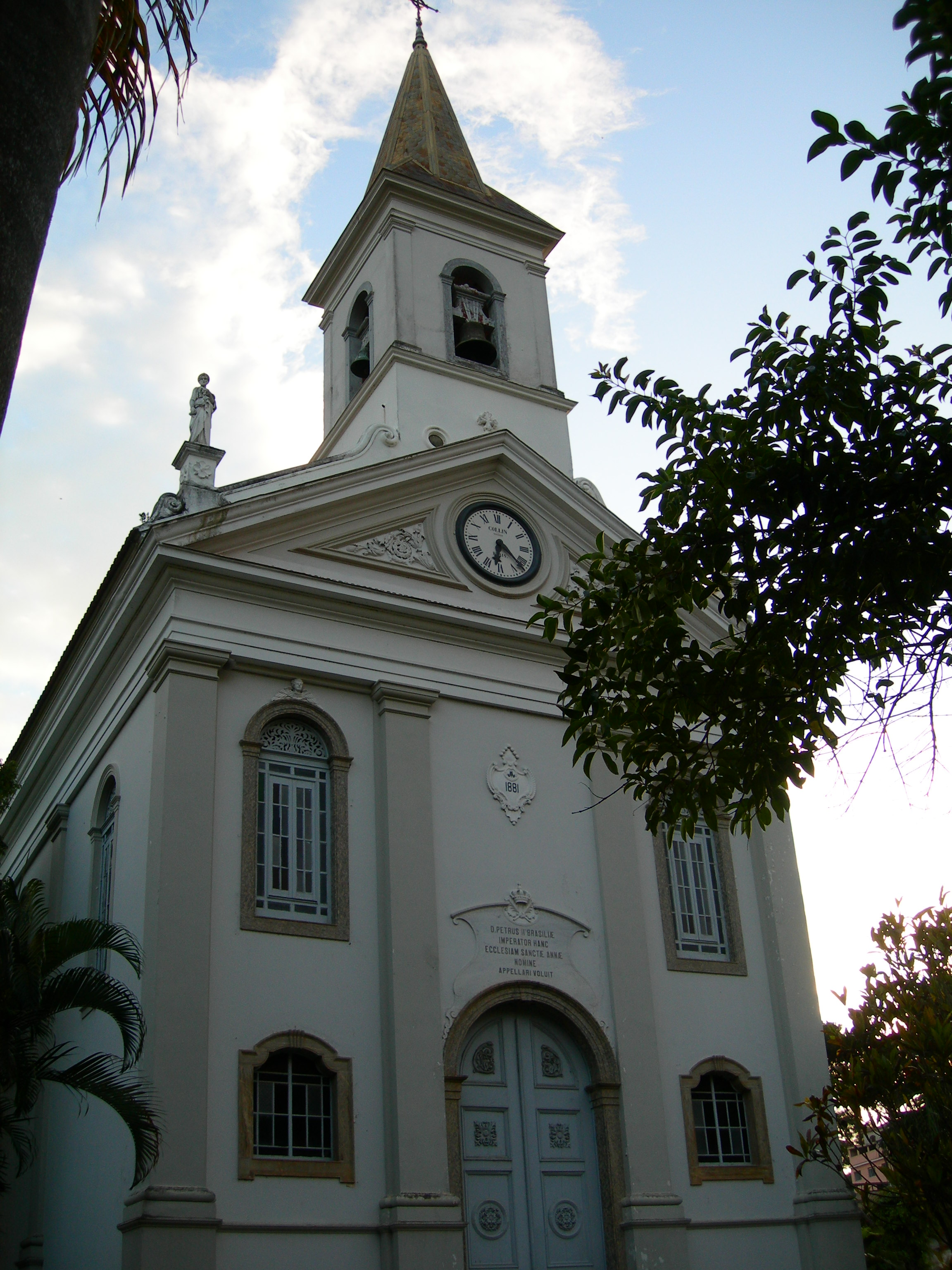 Picture made by Jorge Luiz Dutra Iório (the autor of changings in this page)